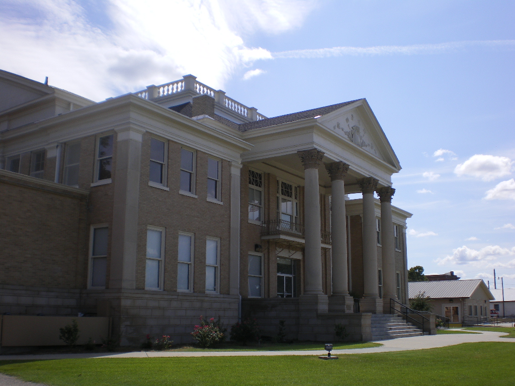 Ben Hill County Courthouse, E. Central Ave. at S. Sheridan St., Fitzgerald GA